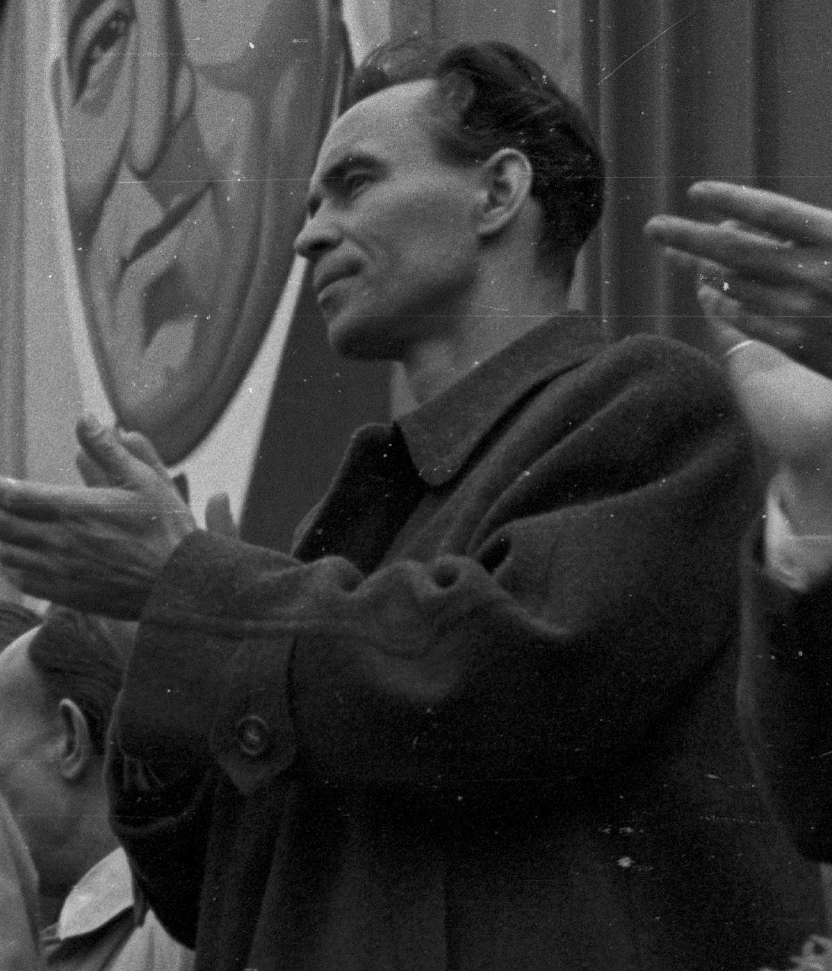 László Rajk, Sr. during International Workers' Day in 1947